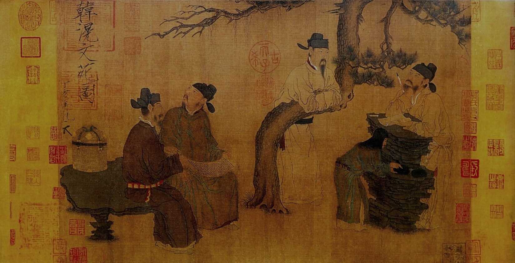 Zhou Wenju (ca. 907-975), Five Dynasties (907-960) Undated, handscroll, ink and colors on silk, h: 37.4 cm, w: 58.5 cm (see [1])